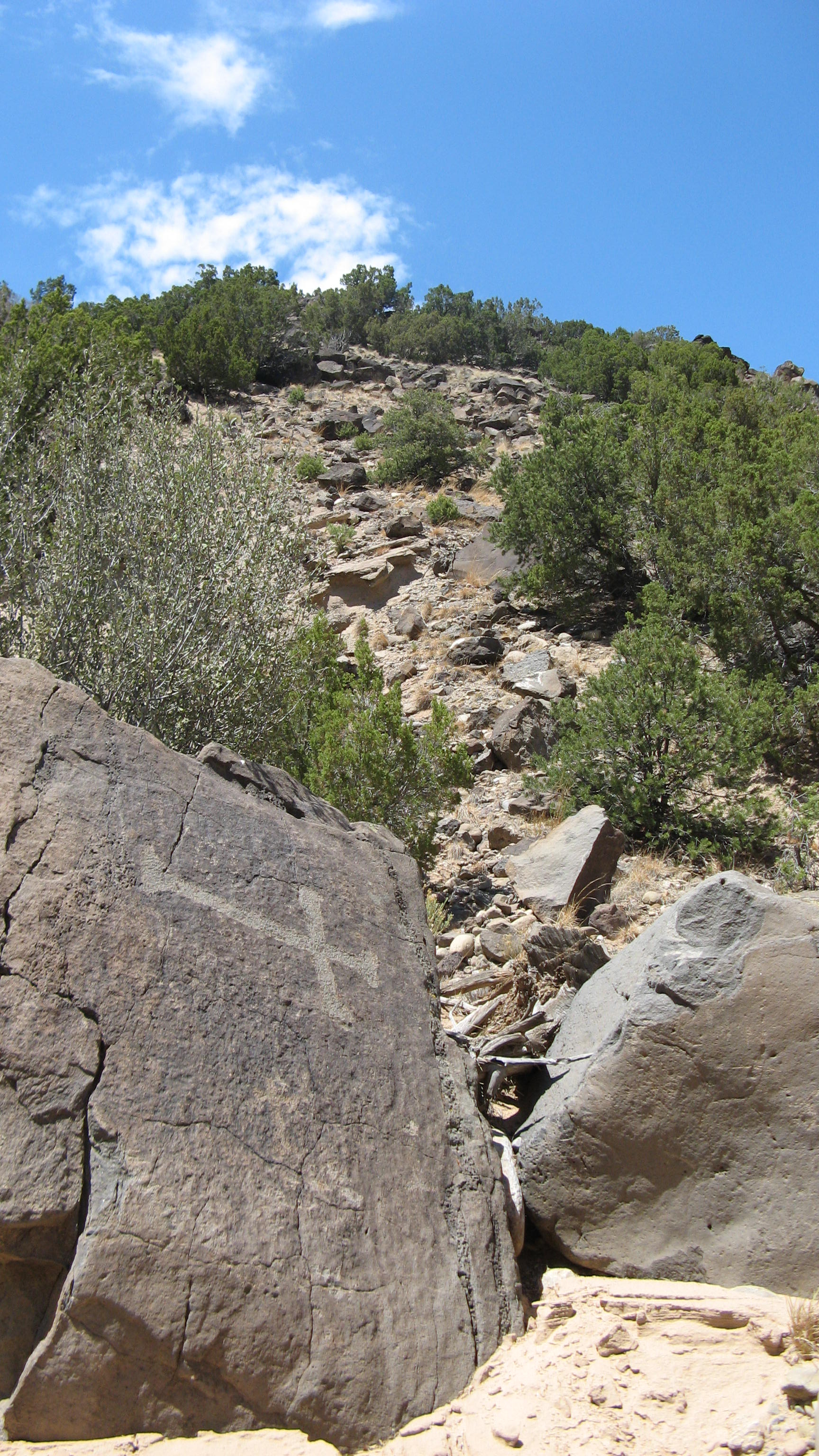 Descanso marking the 1847 Battle of Embudo (high res)